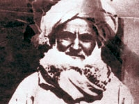 Haji Kasam, Captain of SS Vaitarna aka Steam Ship Vijli which sank in 1888